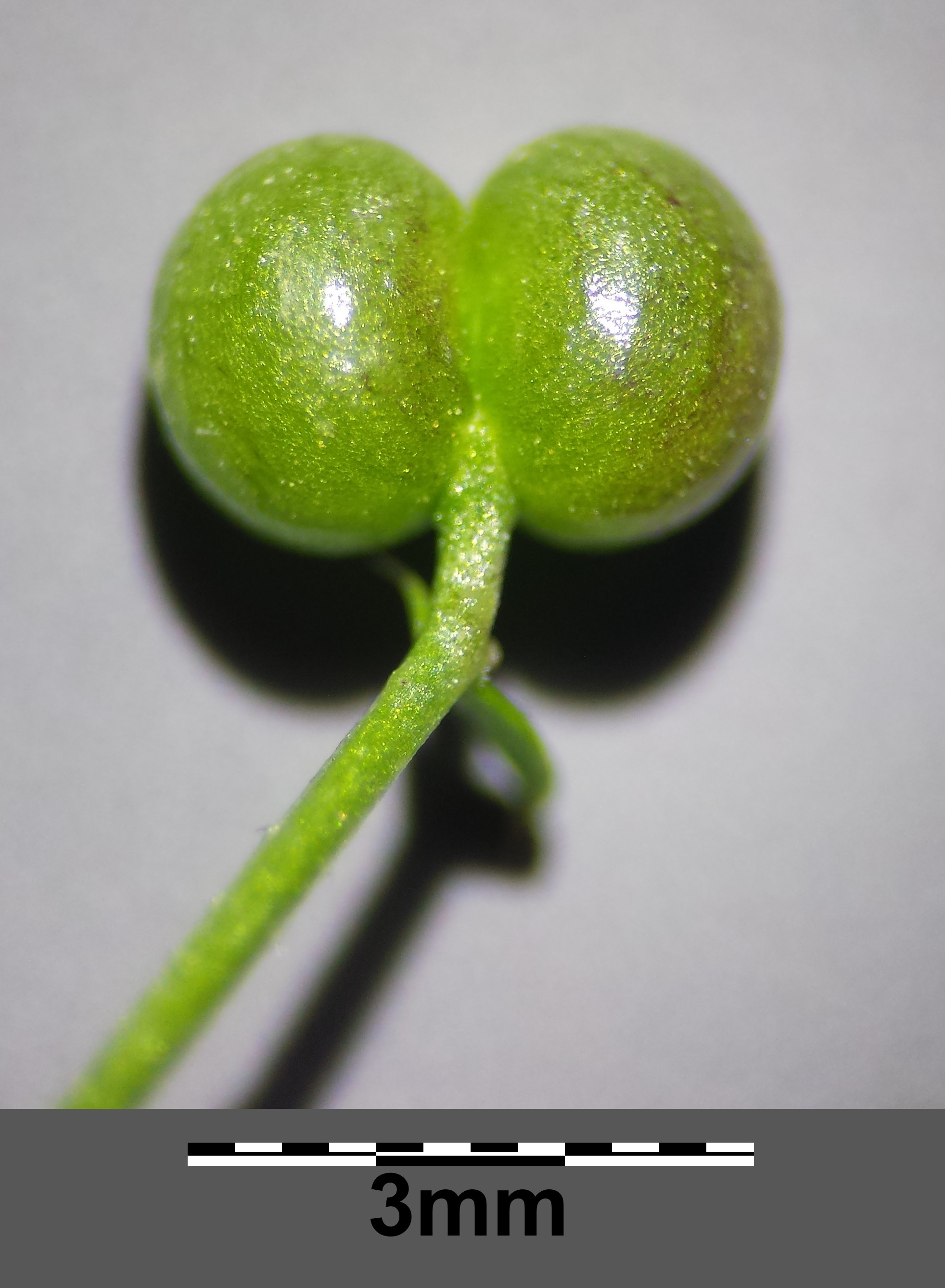 Smooth fruit Taxonym: Galium spurium var. spurium ss Fischer et al. EfÖLS 2008 ISBN 978-3-85474-187-9 Location: Kalte Stube near Puch, district Hollabrunn, Lower Austria - ca. 350 m a.s.l. Habitat: field